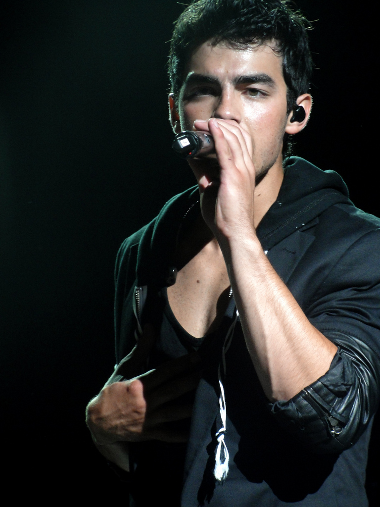 Jonas Brothers Live In Concert and The Cast of Camp Rock 2, September 2nd, 2010.